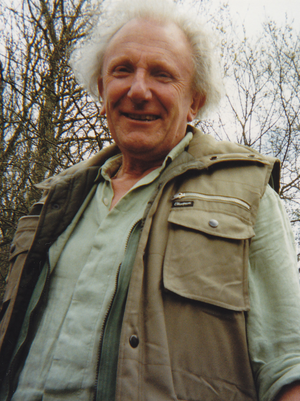 The artist and railway enthusiast David Shepherd, pictured in the mid-1990s.